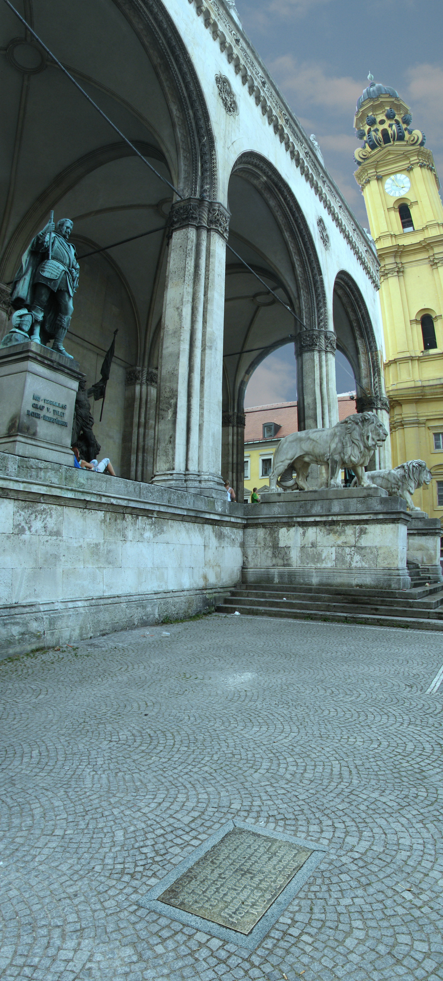 own picture, Gerhard R. Schulze, combination of several fotos, enhanced with blue sky, 2006 July, 27